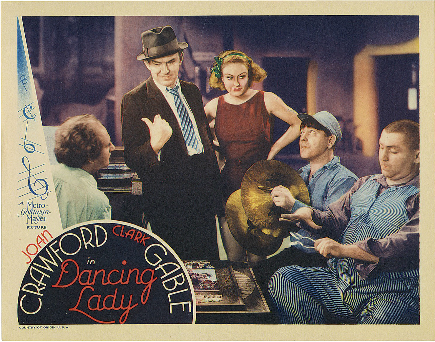 Lobby card for the 1933 film Dancing Lady. Pictured on the card with Joan Crawford are Ted Healy (Stooges used to work for him), Larry Fine, Moe Howard and Curly Howard-the Three Stooges. There are no copyright marks. At bottom left is Country of origin USA.